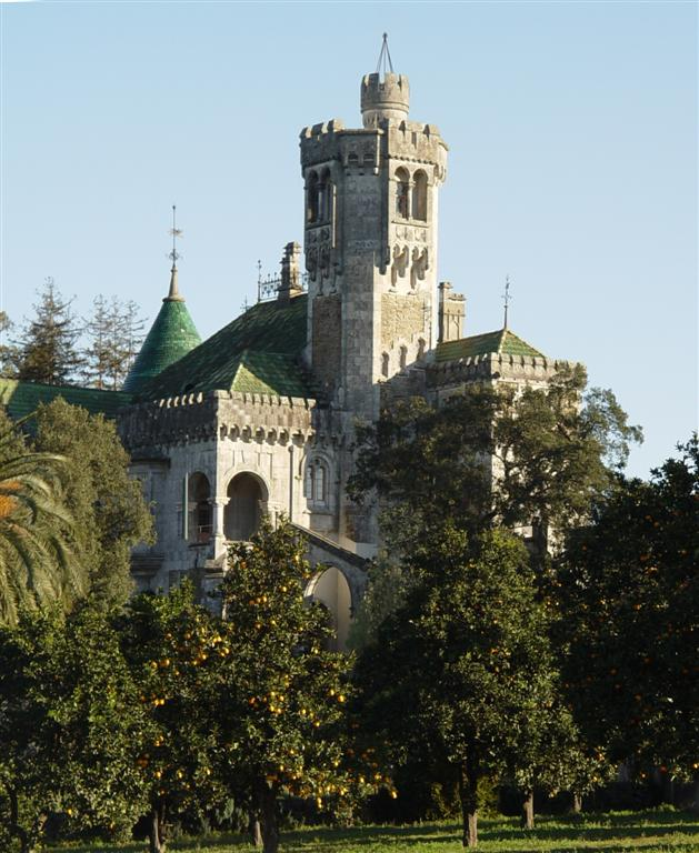 D. Chica Castle in Braga Portugal